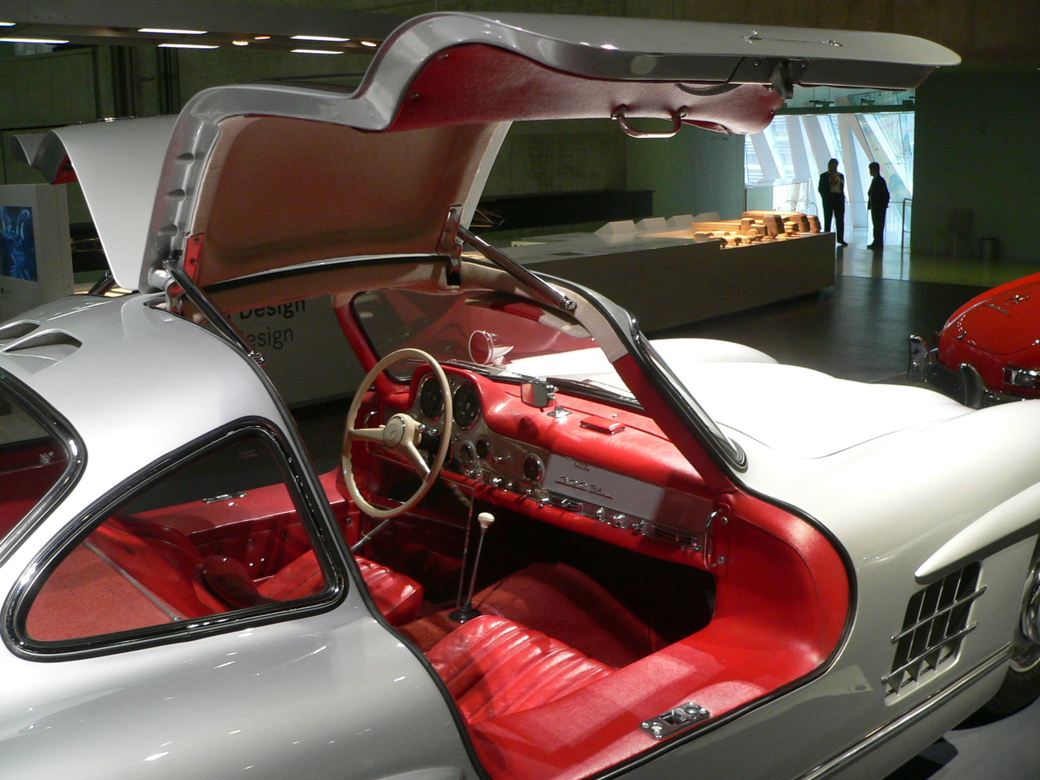 Mercedes 300 SL in the Mercedes-Benz museum in Stuttgart, Germany